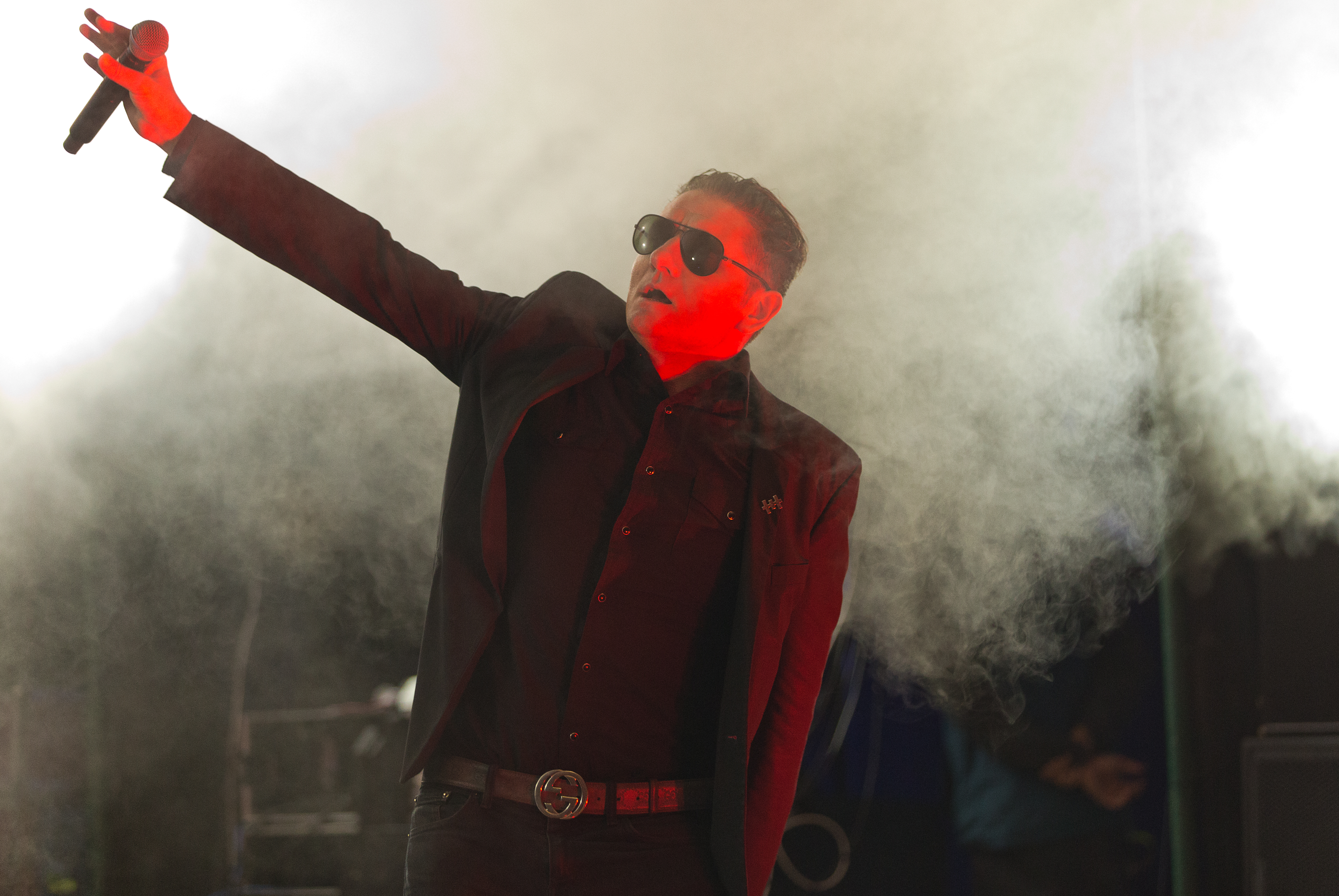 The French/British EBM project Fixmer/McCarthy at the Nocturnal Culture Night 11 2016 in Deutzen/Germany.